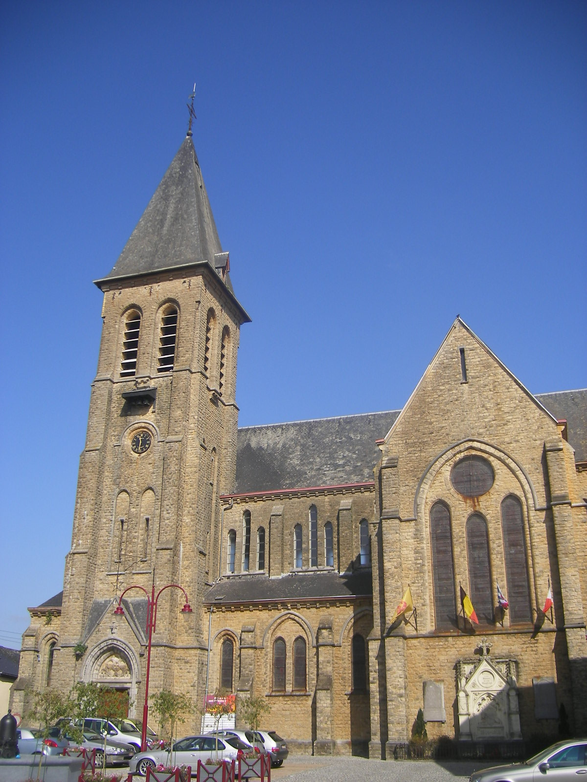 Church of Étalle (Luxembourg province)